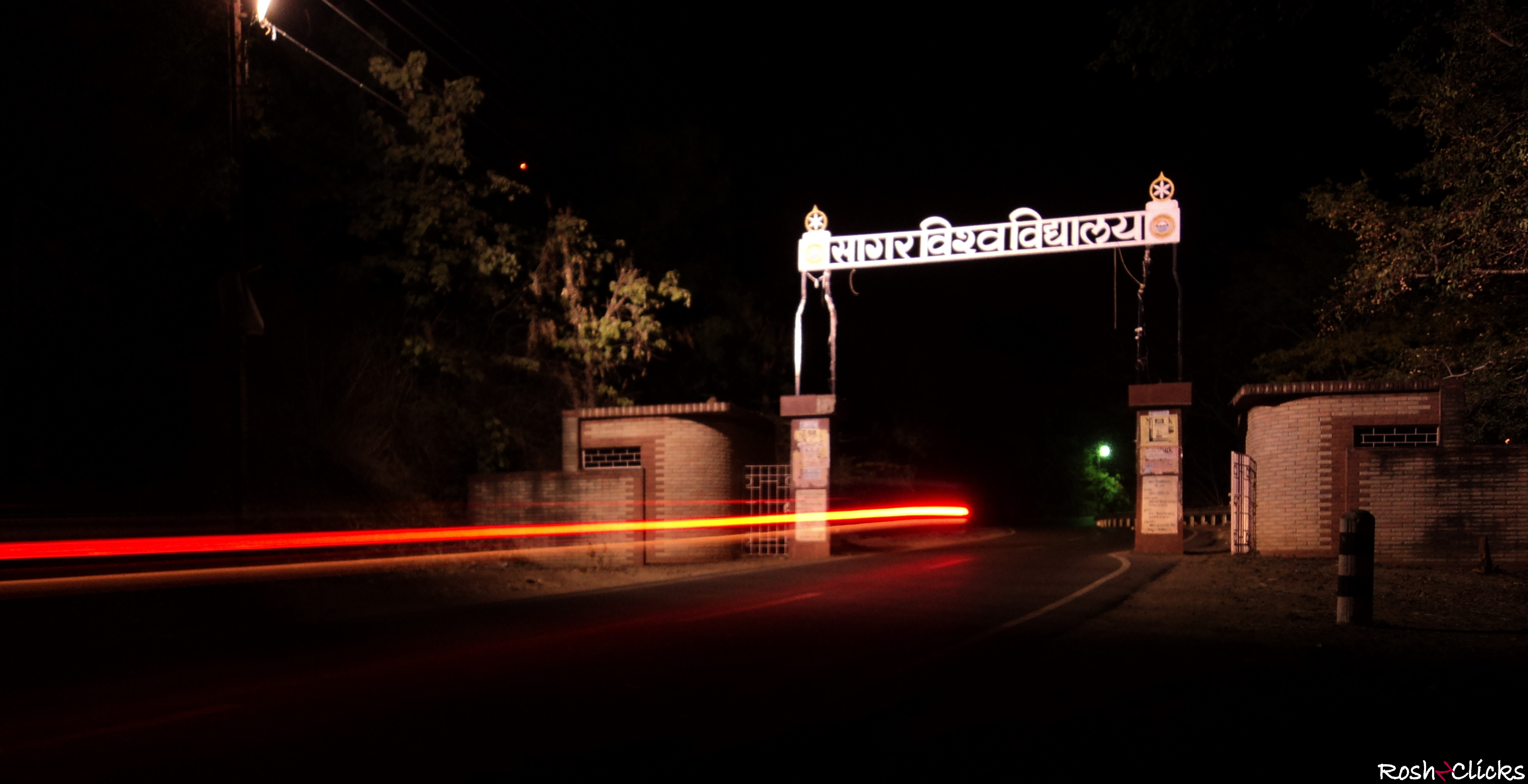 Its is the entry gate of sagar central university, Sagar M.P This photograph of Sagar university entrance was clicked by Roshan Jain (Class of 2012), more of his works can be seen by visiting